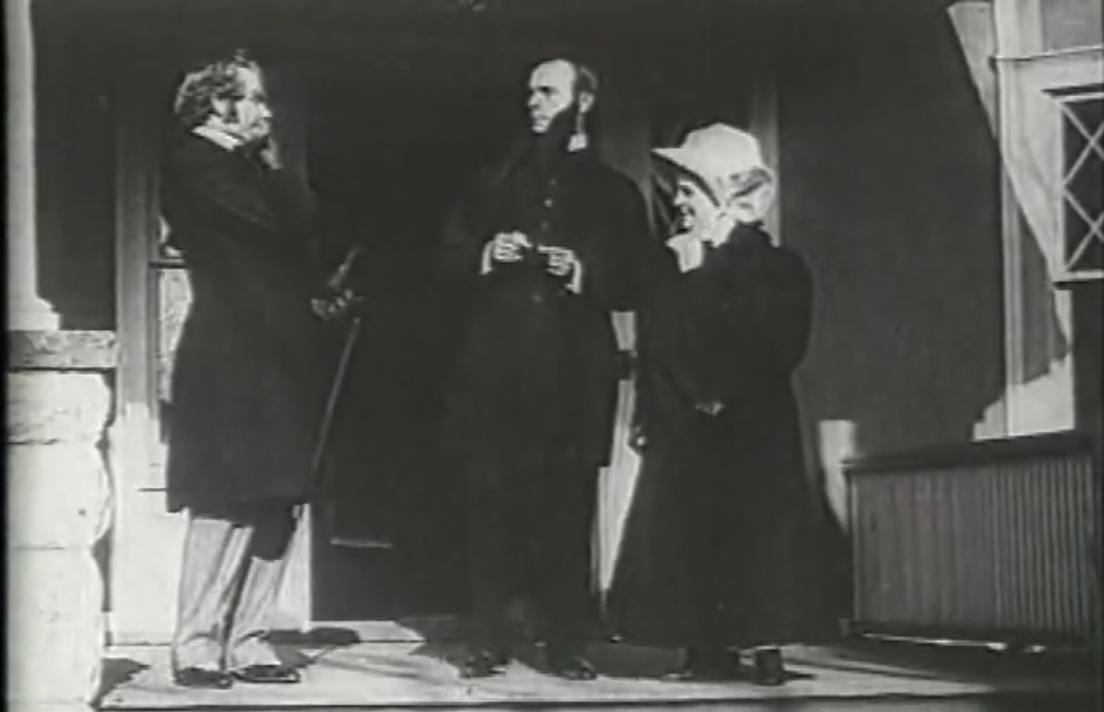 A capture from the Daddy's Double film showing the "Daddy double" with the Parson.